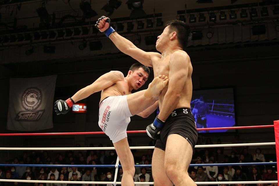 MMA mixed martial arts in Japan